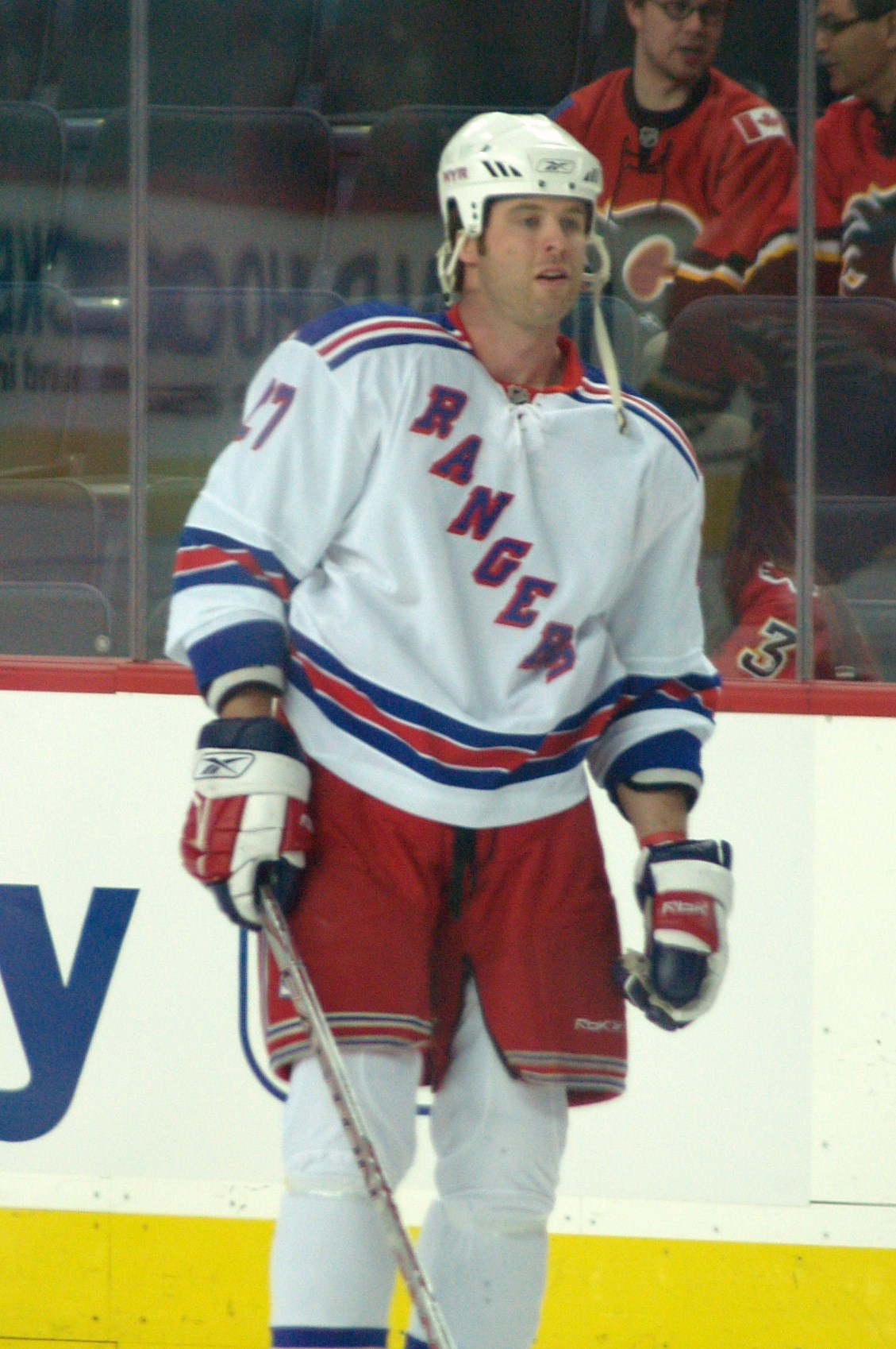 Paul Mara of the New York Rangers during the warmup in Calgary